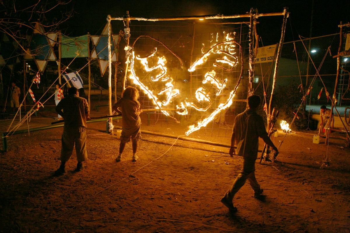 Fire Ceremony in aleph neighborhood of "Eilat Tribe" of the Israeli Scouts Federation